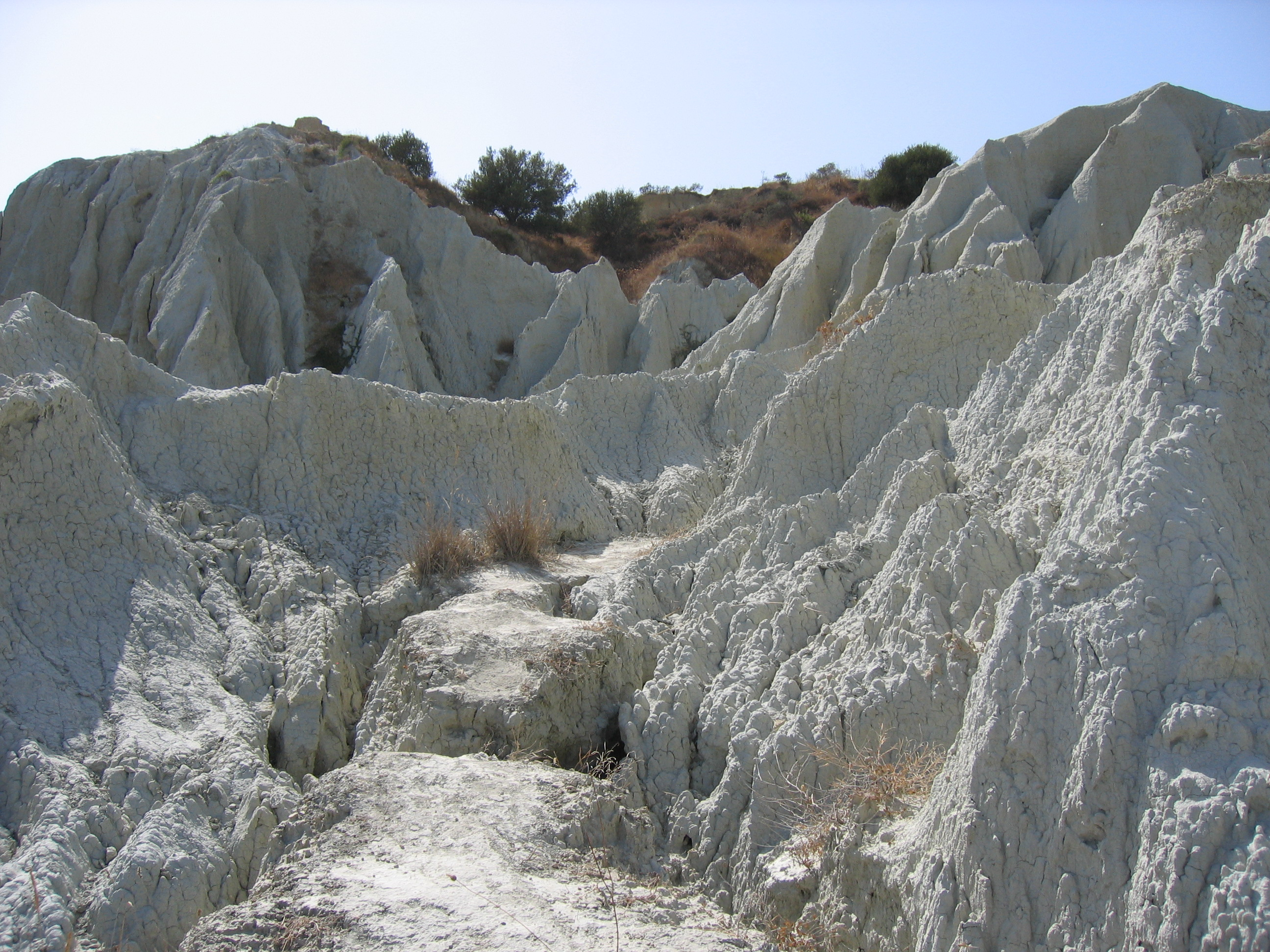 Cliffs composed of white clay at Xi beach, Pailiki, Kefalonia